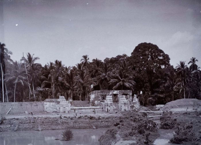 The Kaibon kraton